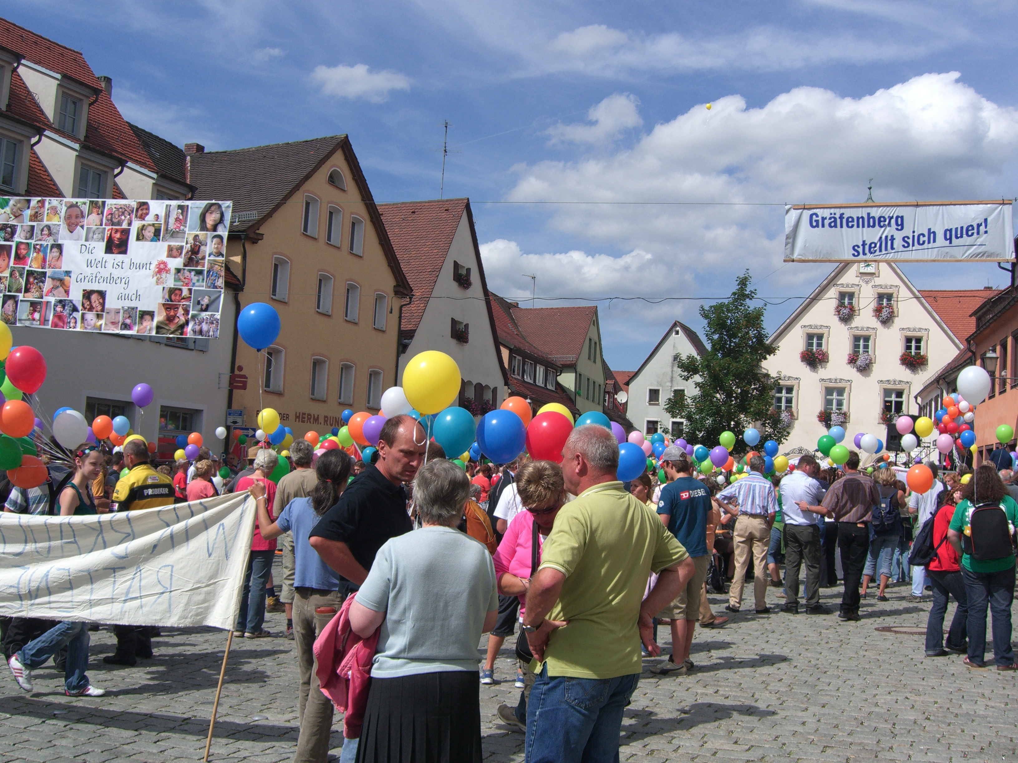 Participants of the anti nazi demonstration "Gräfenberg ist bunt" (Gräfenberg is colorful) at the market place of Gräfenberg in Upper Franconia (Bavaria, Germany) on 18. August 2007 with transparents, colored balloons and with banners stretched above the crowd displaying the texts "Die Welt ist bunt - Gräfenberg auch" (the world is colorful - Gräfenberg too) and "Gräfenberg stellt sich quer!" (Gräfenberg puts its feet down!).